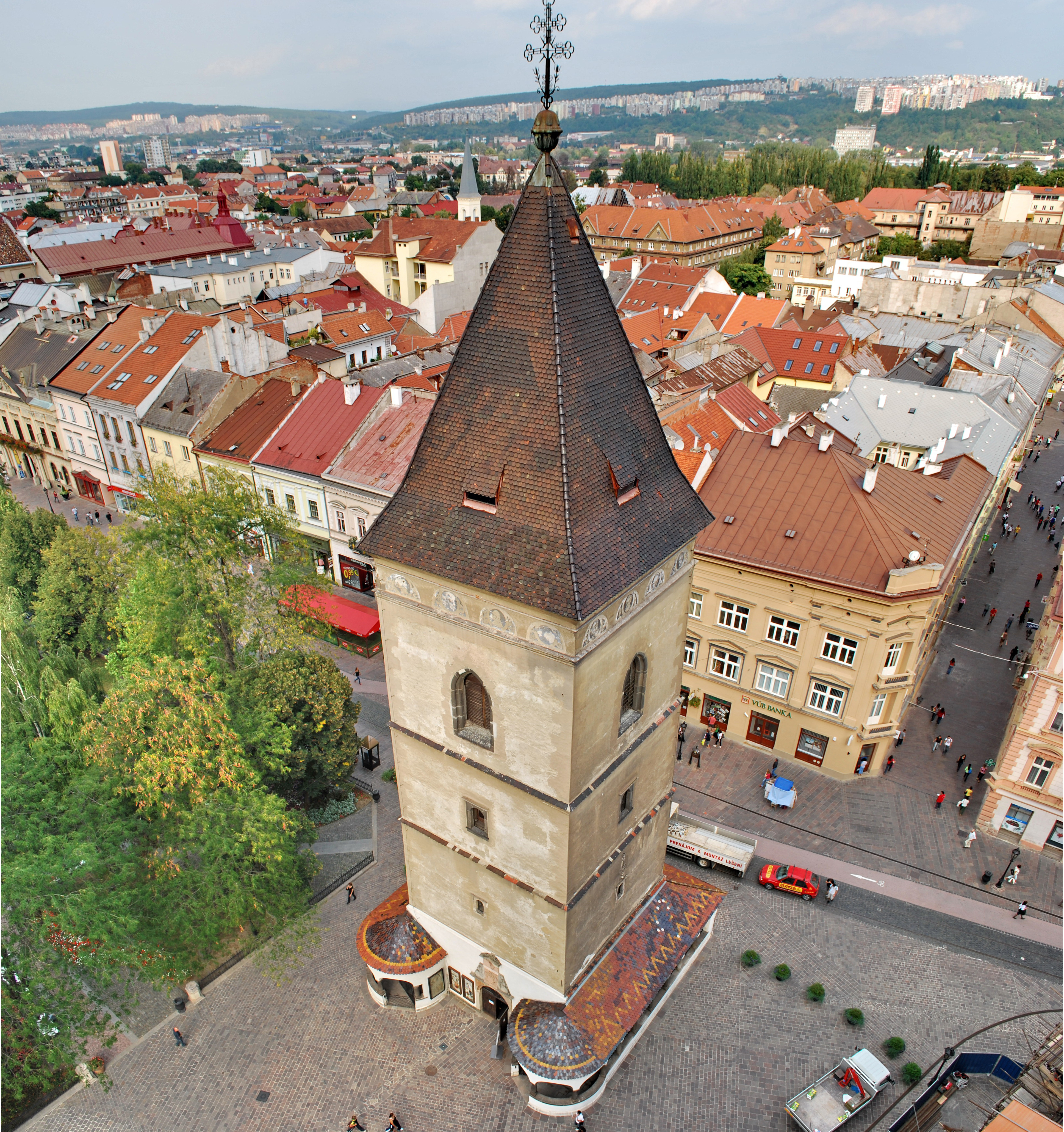 Urban tower Kosice